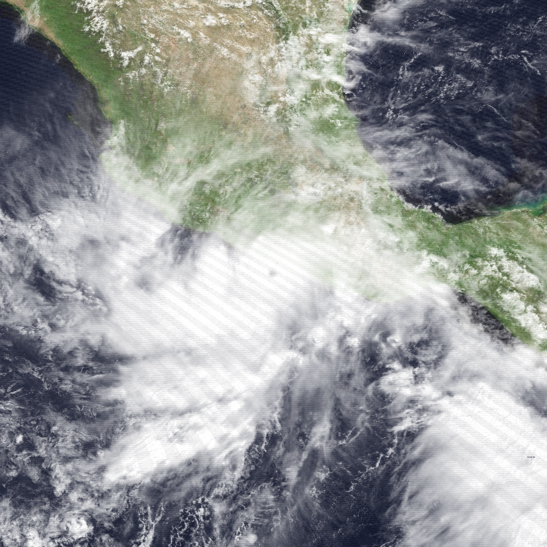 Hurricane Andres near peak intensity off the southwest coast of Mexico on June 3, 1979